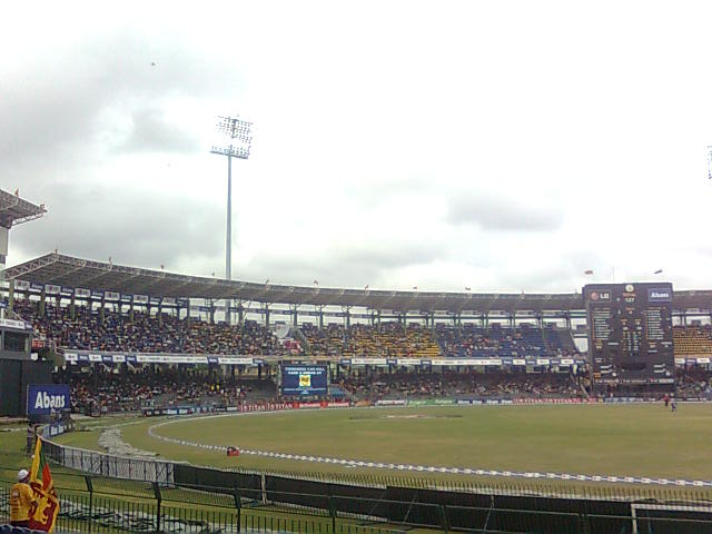 SL v Aus,August 22,2011